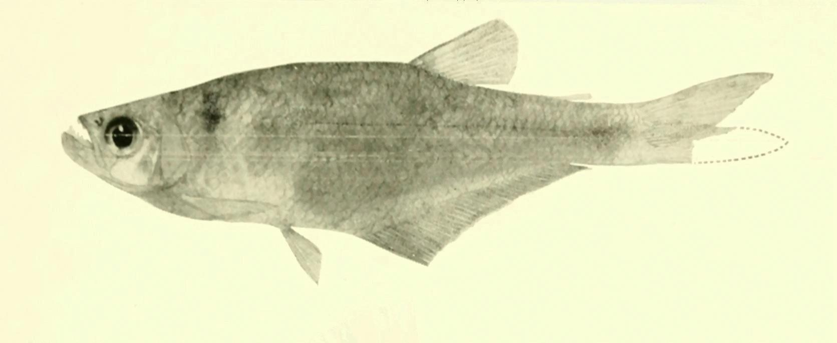 Annals of the Carnegie Museum - Hysteronotus megalostomus Cut-out from original (Annals of the Carnegie Museum (1911-1913) (18226917269).jpg) shown below